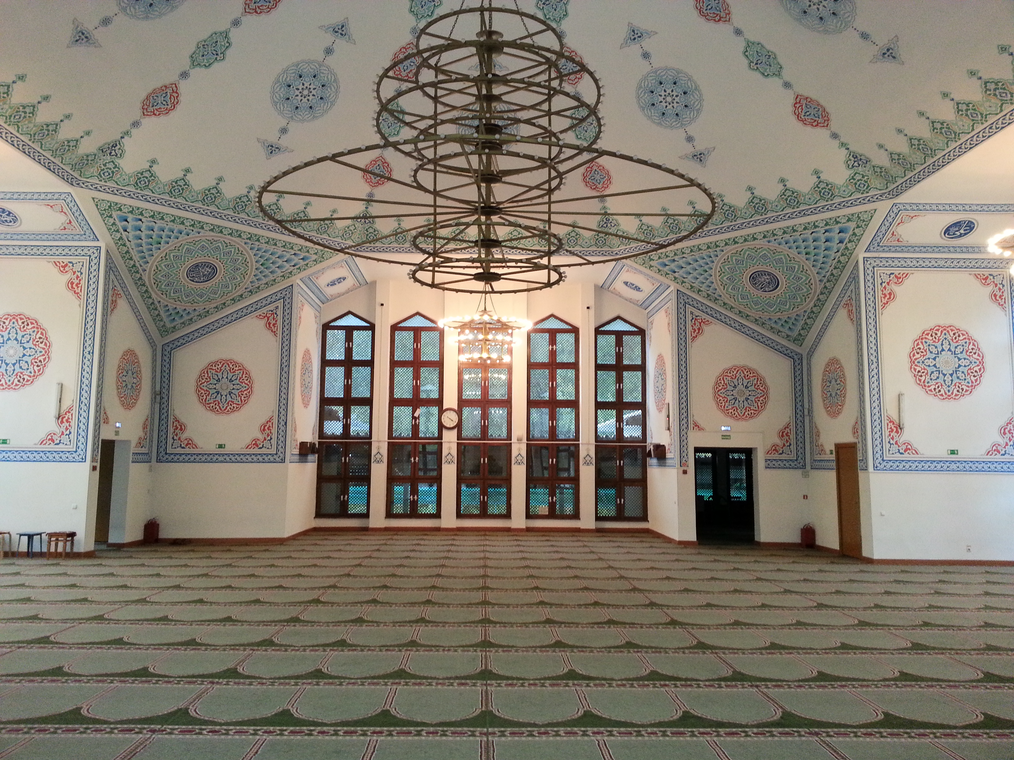 Mosque in the city of Rostov-on-Don, Russia, st. Furmanovsky 131